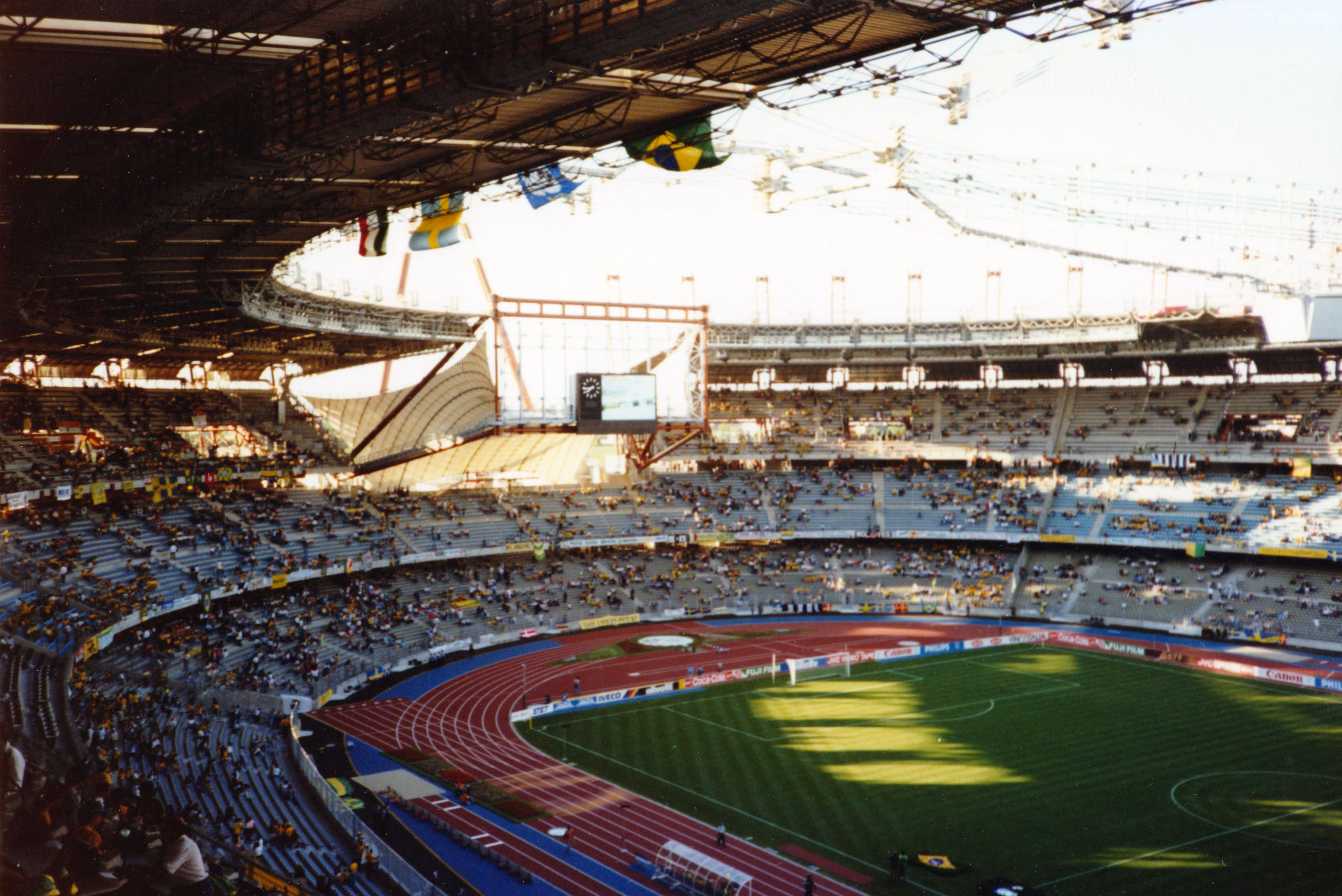 Internal view of the Stadio delle Alpi in Turin on 10 June 1990, on the occasion of the first official match it hosted, the challenge between the national teams of Brazil and Sweden (2-1) valid for the group stage of the 1990 world championship.